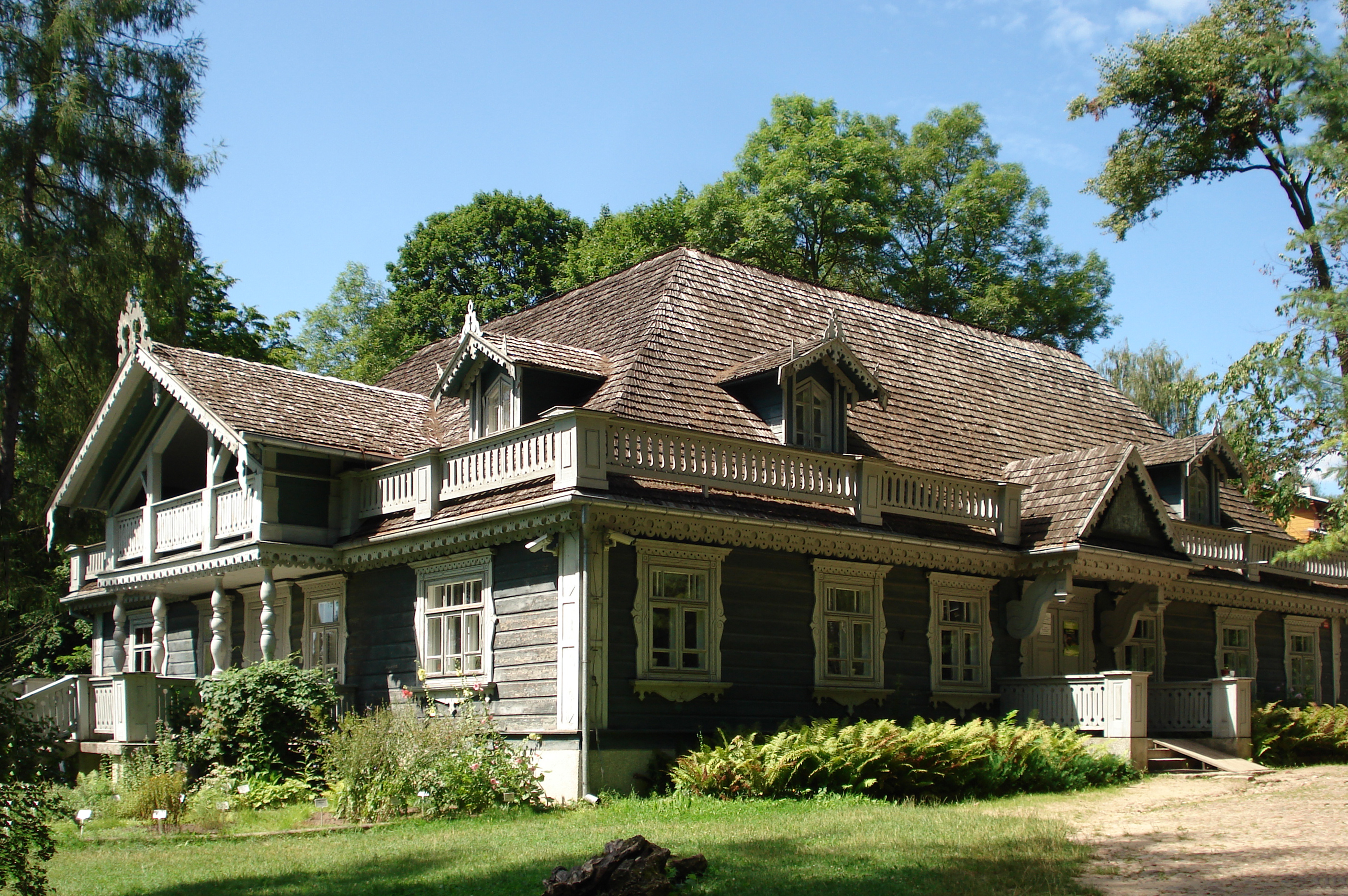 Białowieża. Formerly the manor house of governor in the tsar palace park.